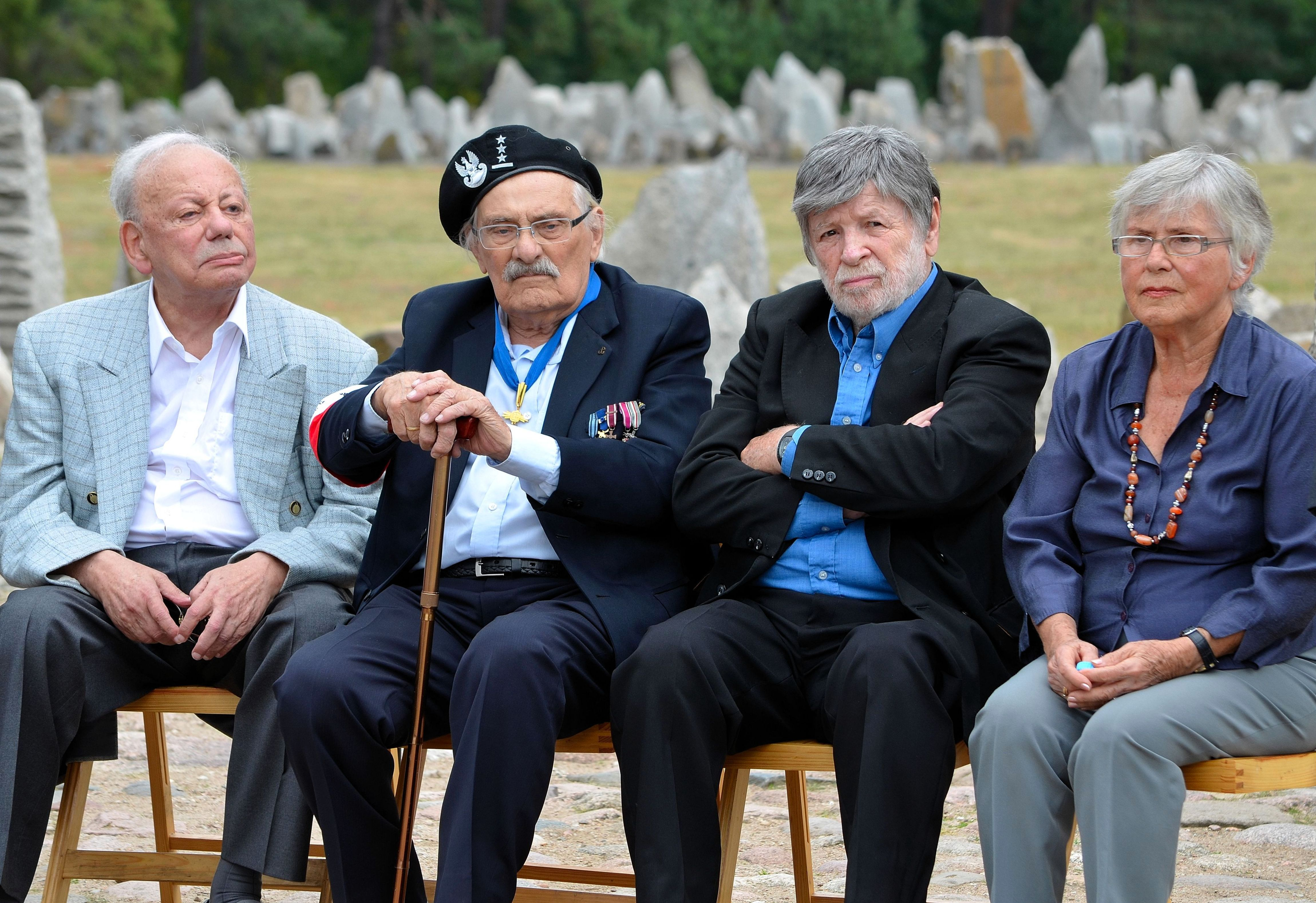 Zygmunt Rolat, Samuel Willenberg, Shevah Weiss and Ada Willenberg during the commemorative ceremony to mark 70th anniversary of the revolt in Treblinka death camp at Treblinka